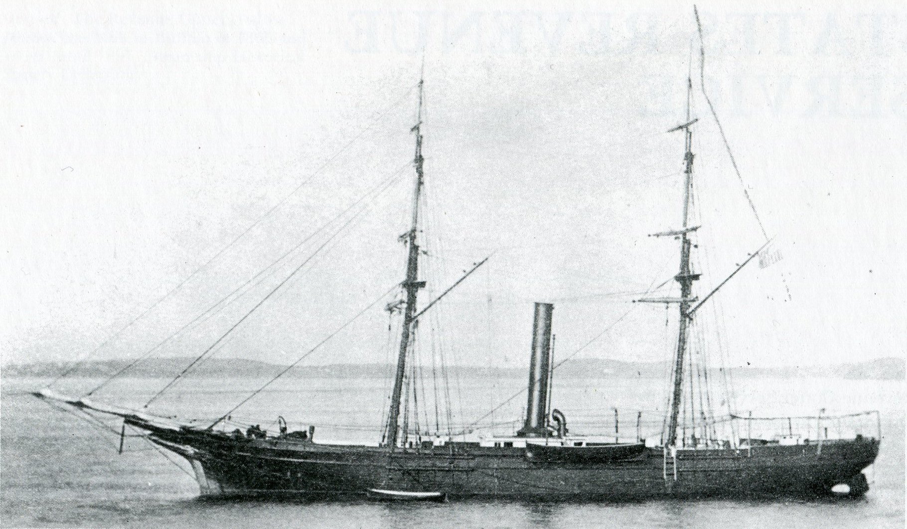 USRC Levi Woodbury. Built in 1864, she was originally USRC Mahoning.